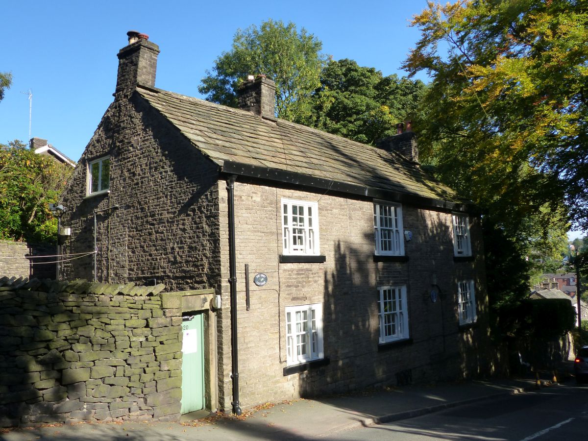 The Grey Cottage, Disley. Grade II listed cottage and former home of Allan Monkhouse, English playwright, critic, essayist and novelist.